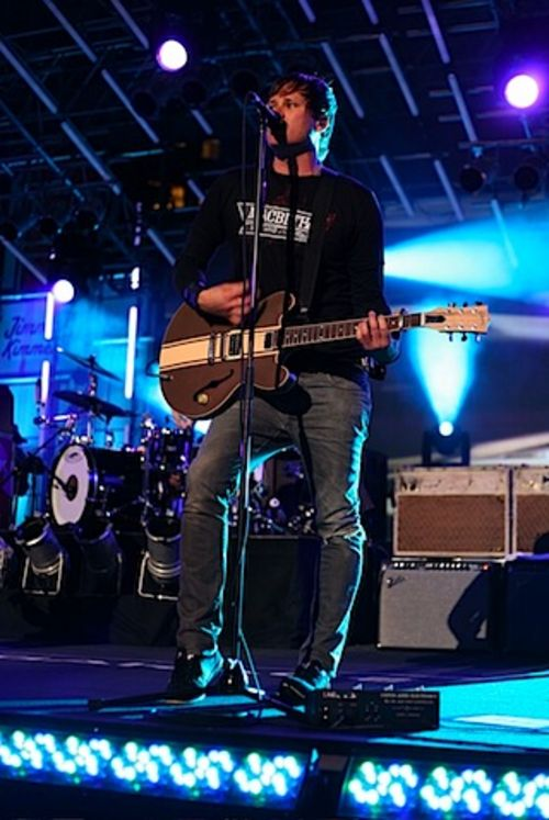 Tom DeLonge performing at Jimmy Kimmel Live!. He is playing with his band, Blink-182.